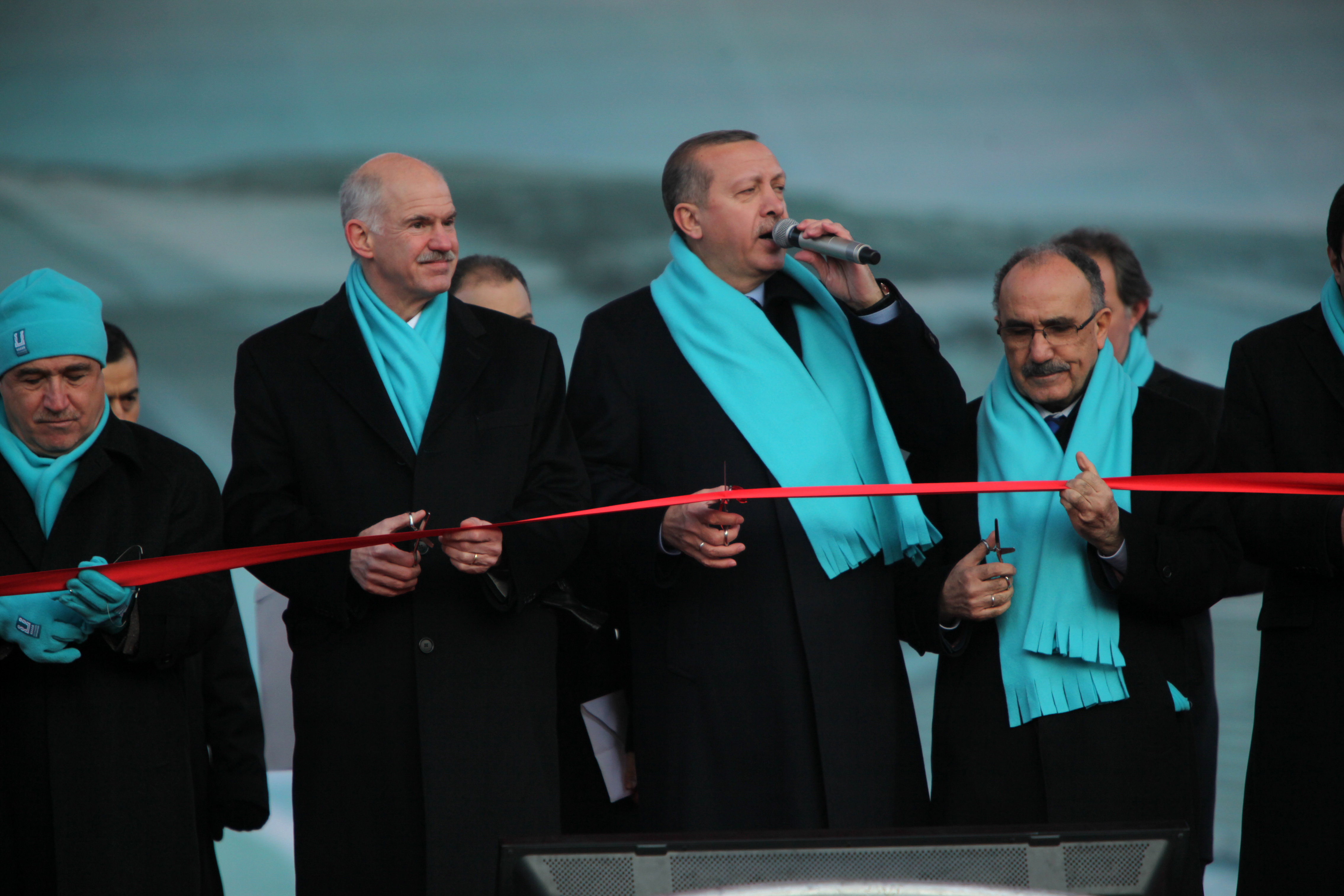 From left to right: Turkish State Minister Cemil Çiçek, Greek Prime Minister George Papandreou, Turkish Prime Minister Recep Tayyip Erdoğan and Turkish Interior Minister Beşir Atalay in Erzurum, Turkey.